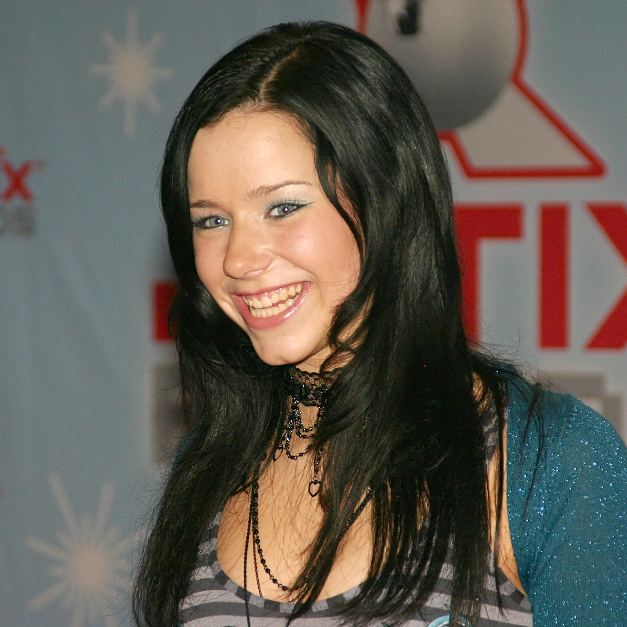 Selina Shirin Müller during the conferment of the JETIX Award at the youth fair "YOU", Berlin